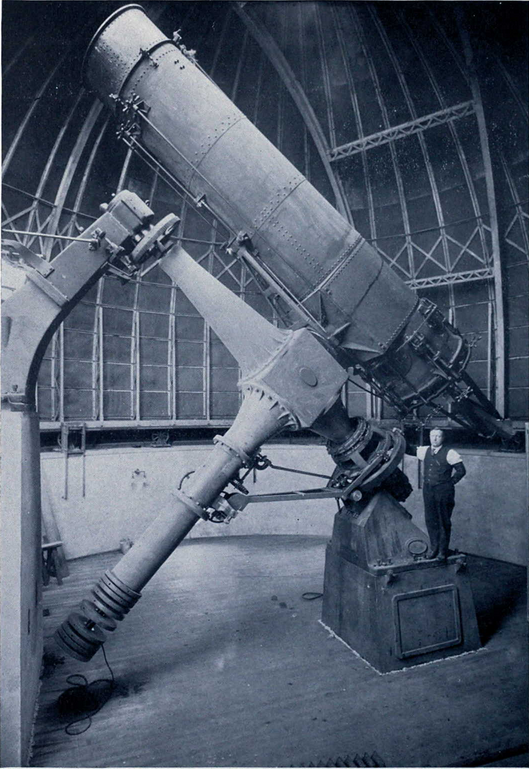 Photograph of University of Michigan telescope